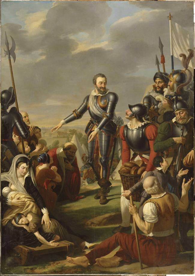 Henri IV devant Paris Aout 1590 by Jean-Charles Tardieu, also called "Tardieu-Cochin" (3 September 1765 – 3 April 1830) Versailles: Musée national des châteaux de Versailles et de Trianon